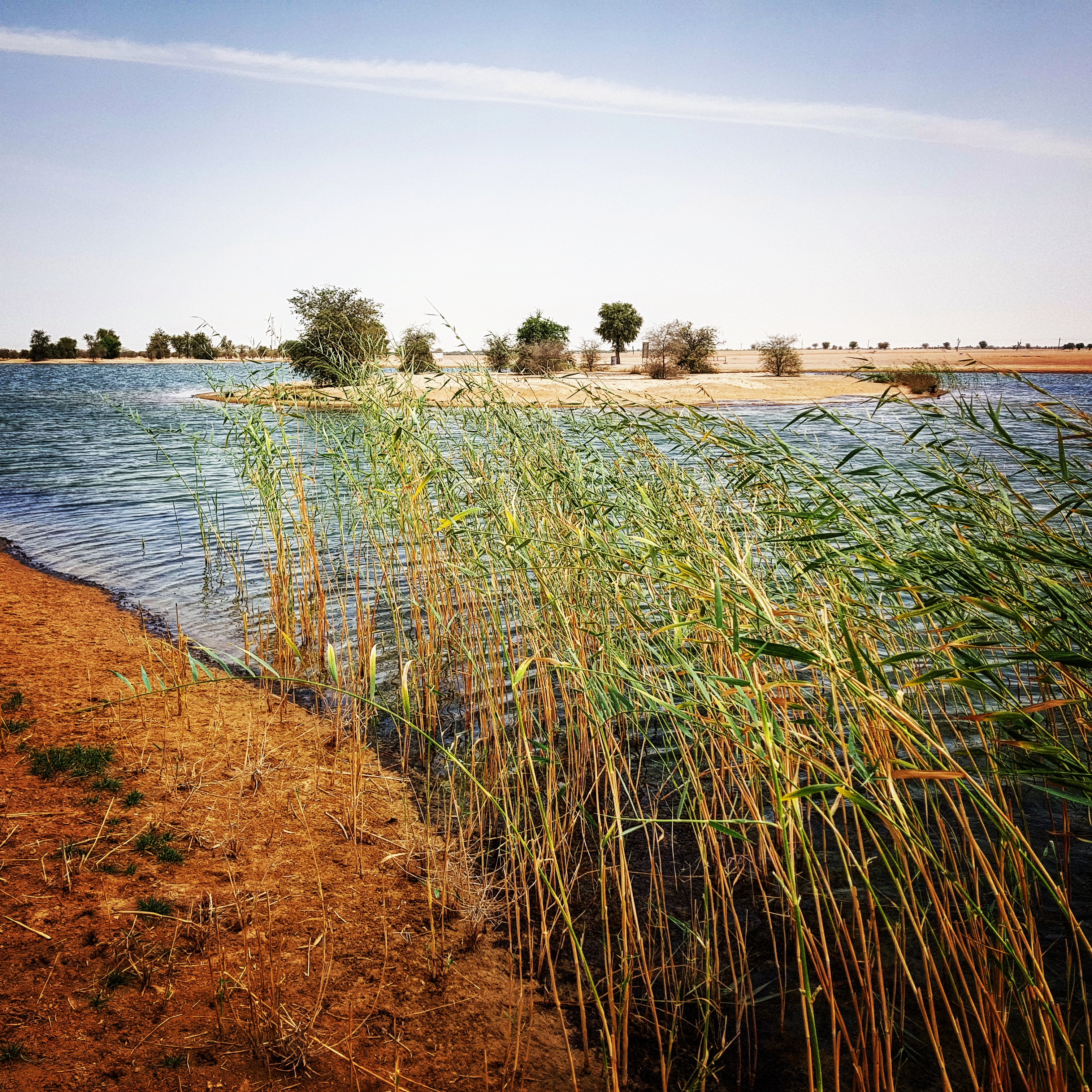 The extensive desert wetlands at Al Marmoom are man-made, and are fed with treated water.